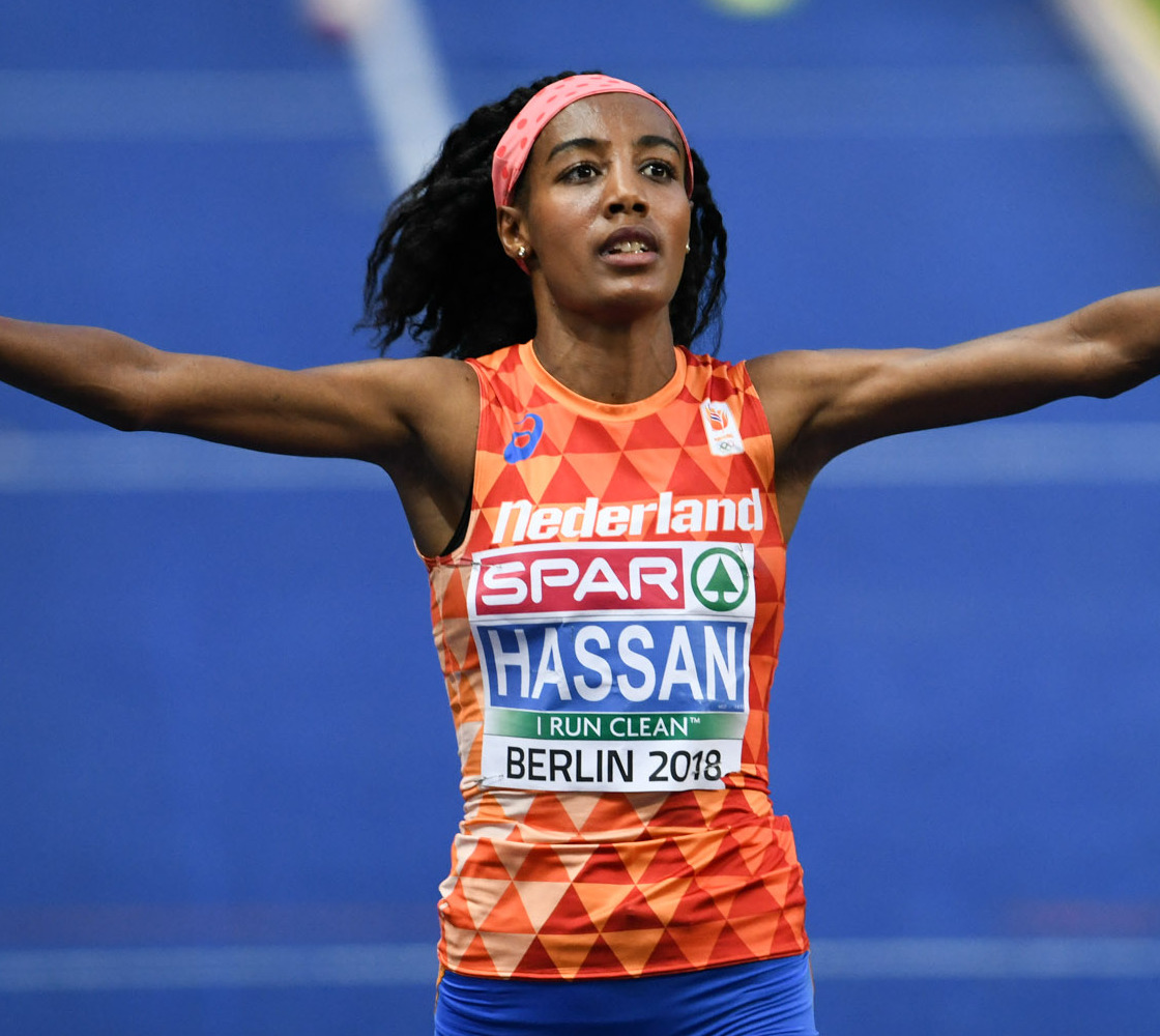 Sifan Hassan 2018